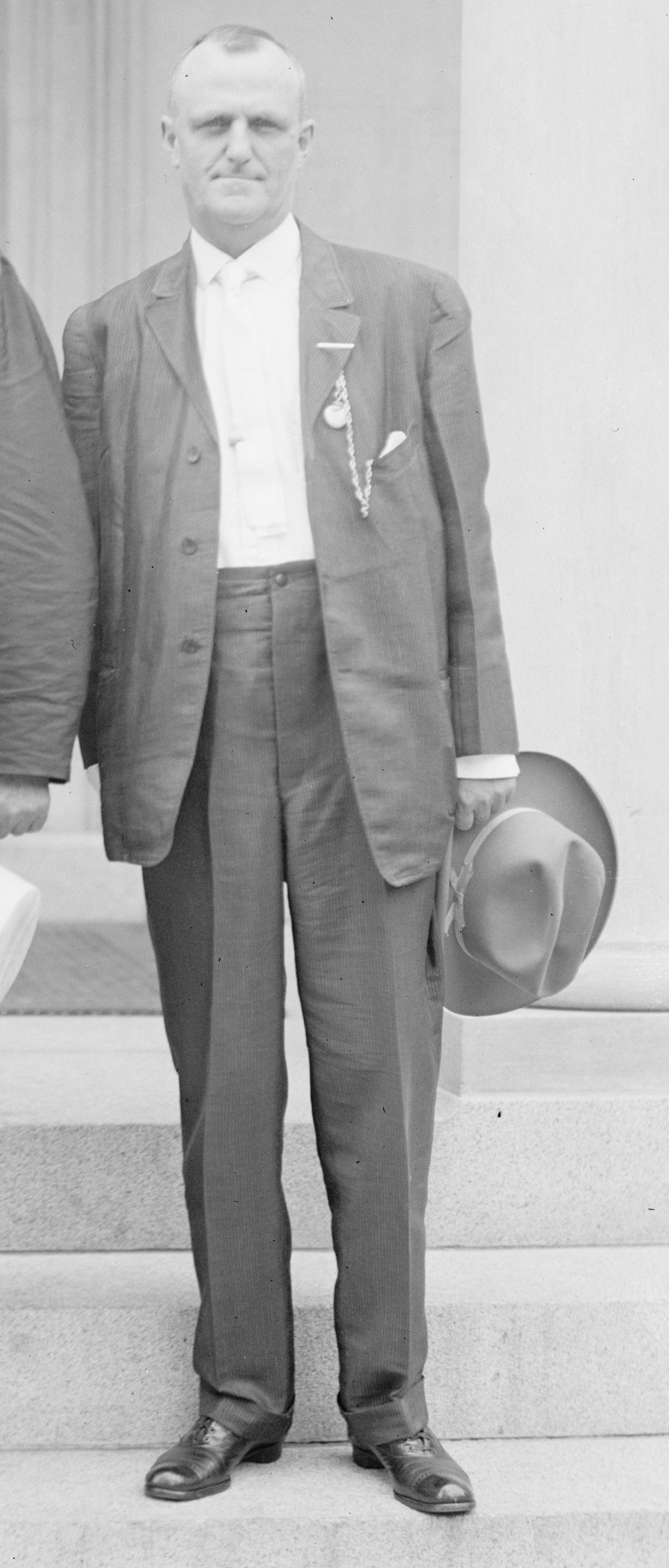 Richard Lee Metcalfe, Governor of Panama Canal Zone, 1913